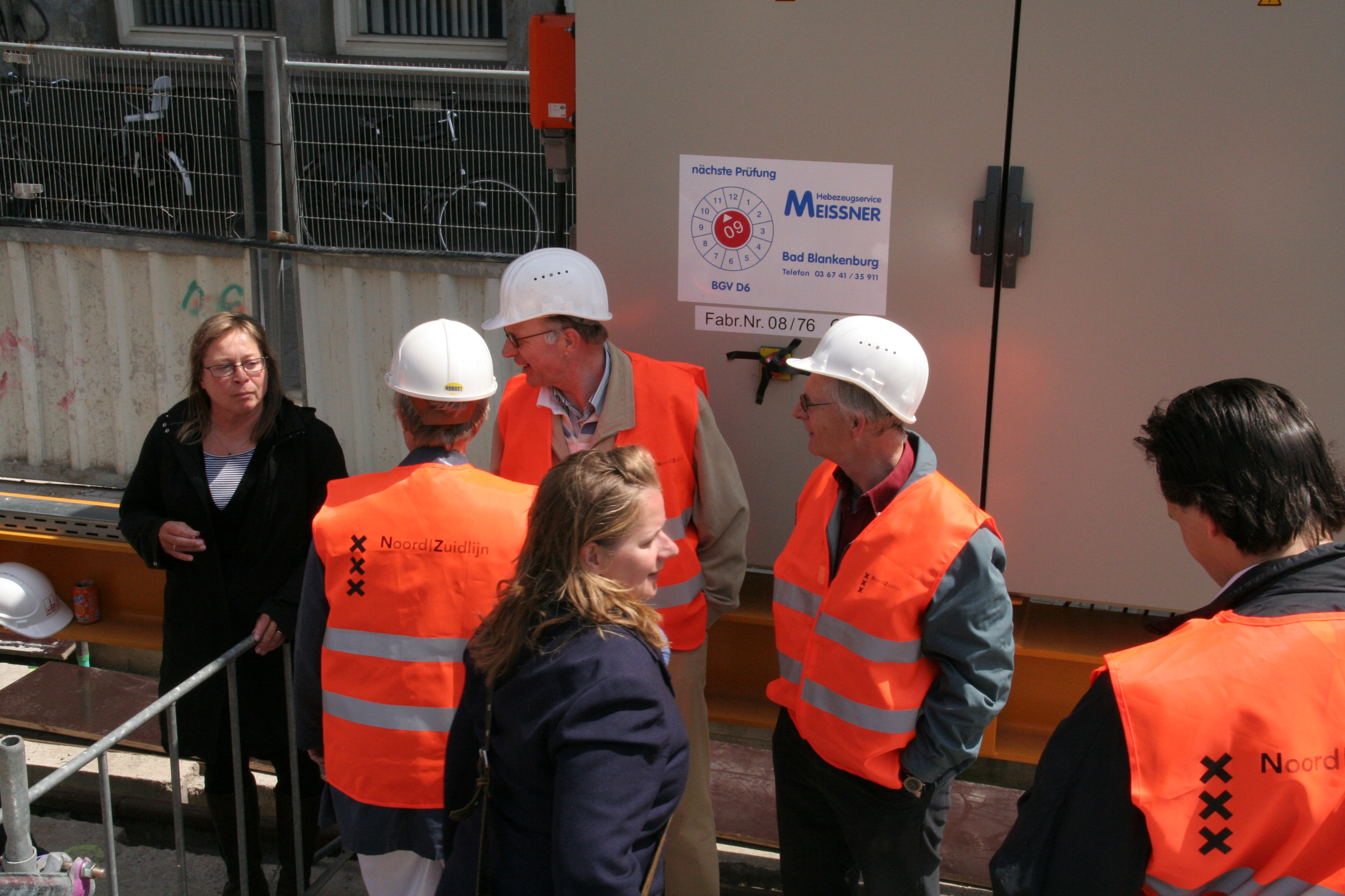 Hans Gerson, Amsterdam